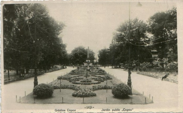 Copou Park (archive picture)